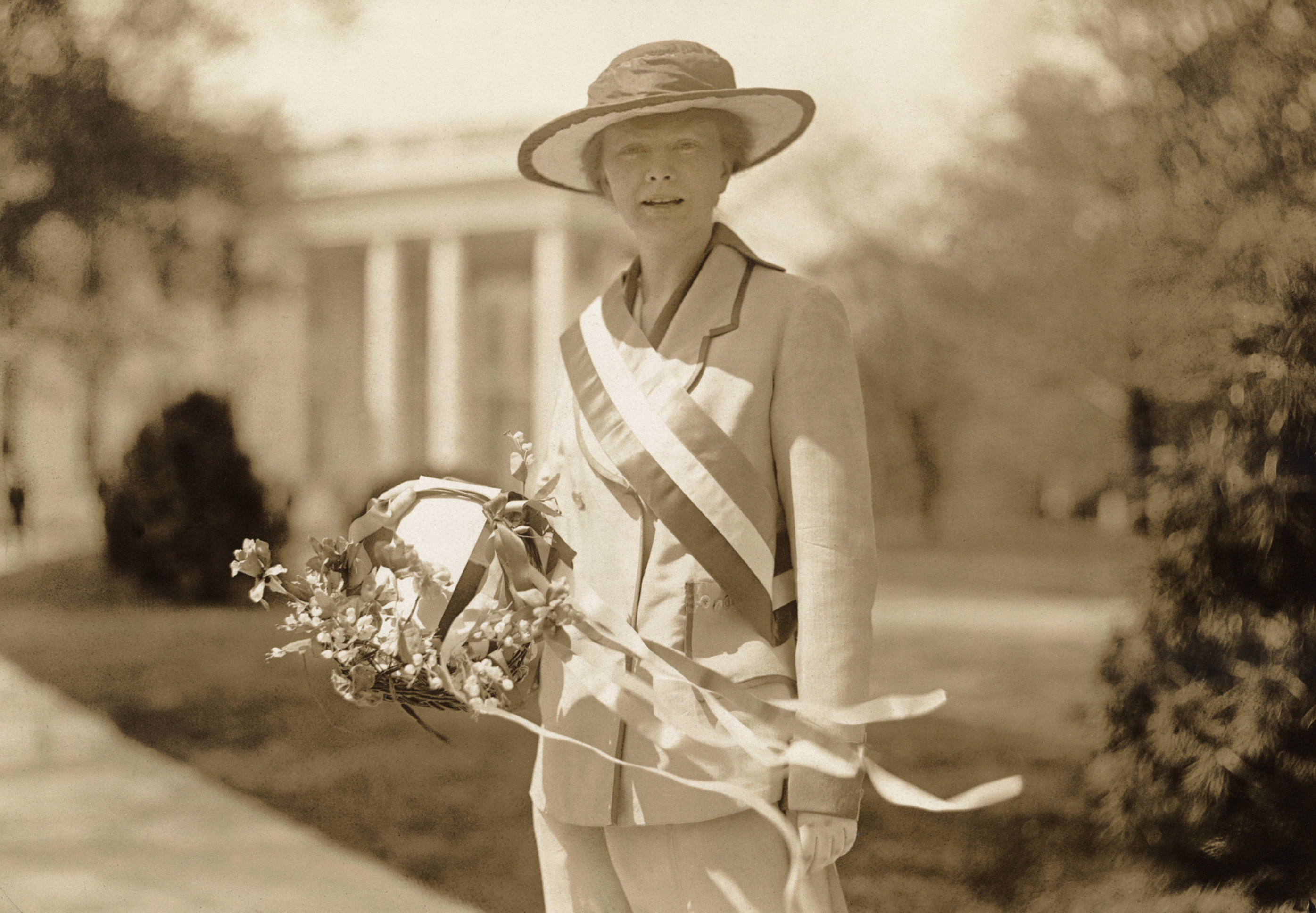 Miss Joy Young [later Mrs. Joy Young Rogers], of Washington, D.C. Assistant Editor of "The Suffragist," weekly organ of the Woman's Party and the Congressional Union for Woman Suffrage. Picture taken when she was on her way to the White House to present President Wilson with a basket of flowers in which was contai[ned a request for passage of the women's suffrage amendment, and letters of support from women of the American West.][1] Informal portrait, three-quarter-length, Joy Young, facing forward, standing outside with White House in background, wearing wide-brimmed hat, two-piece suit with piping, gloves, and tricolor suffrage sash, carrying a basket of flowers.